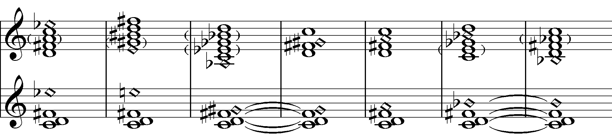 The following table shows the resultant chord for some of the possible added notes: } Master Chord: C D F♯Added NoteResultant ChordIntervalsAudioE♭D7♭90 4 7 t 1Play on CEE9♯50 8 t 2Play on CG♯G♯(♯11), Fr+6 to D♭0 4 7 t 2 6, 0 4 6 tPlay on C, Play on C, Fr+6 in CAD7, Gr+6 to D♭0 4 7 tPlay on C, Gr+6 in CB♭C9♭5, B♭7♯50 4 6 t 2, 0 4 8 t 2Play on C, Play on CDate28 November 2016SourceOwn workAuthorHyacinth Licensing[edit] This media depicts a chord outside of a specific musical context. Chords consist of an unordered collection of pitches outside of time (no "distinctiveness"), may be used in compositions by multiple composers ("common material"), and may not be readily apparent in compositions. As such, a chord is a musical concept or technique, which is considered too simple to be eligible for copyright protection, or which consists only of technique, with no original creative input. This media depicts a musical concept or technique, which is considered too simple to be eligible for copyright protection, or which consists only of technique, with no original creative input.